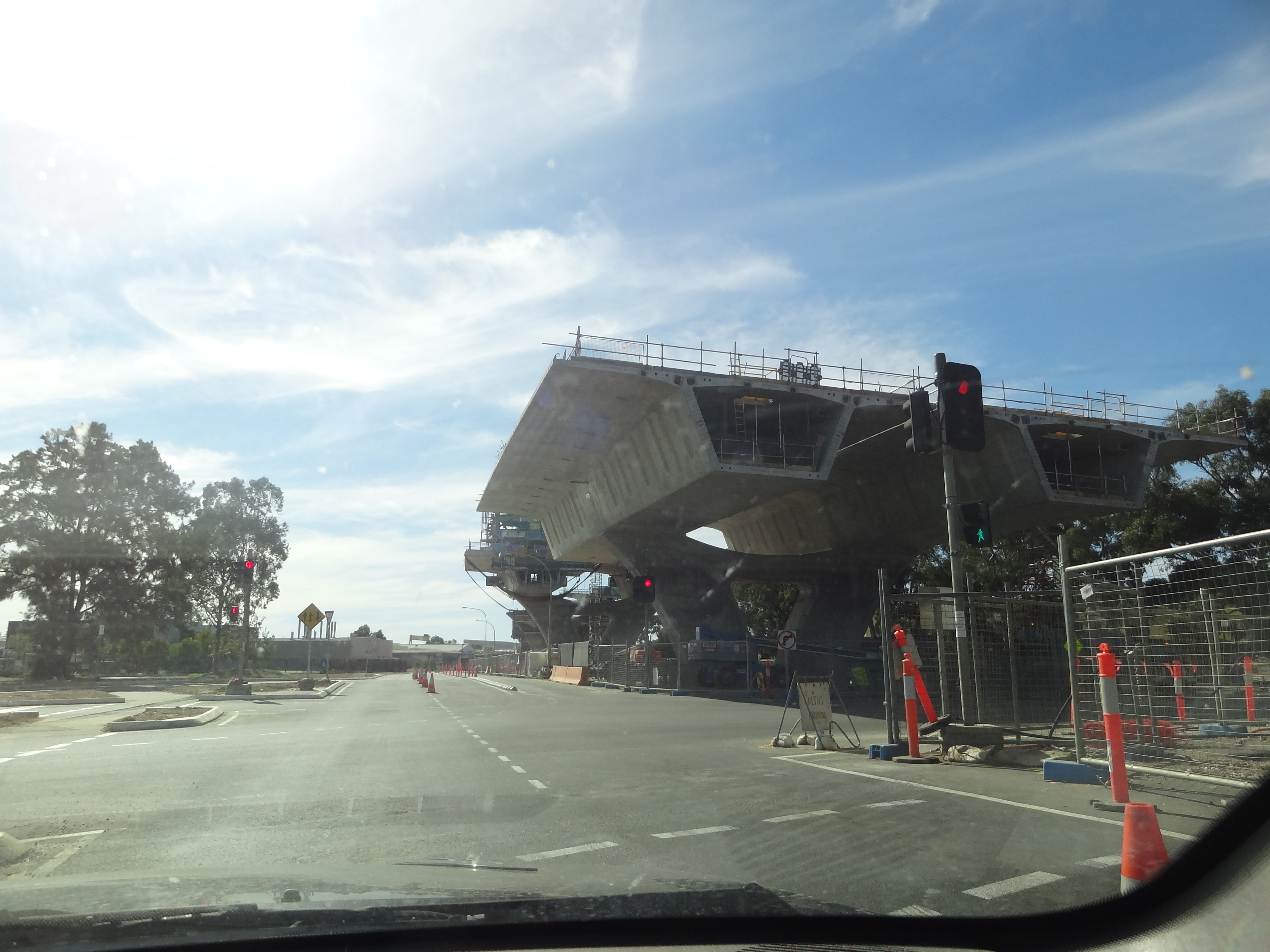 The South Road Superway in its early construction phase at Days road, with several elevated road segments lifted into place.